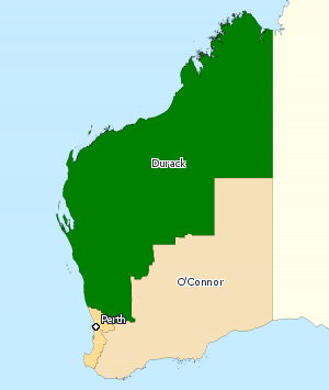 This image incorporates data that is: © Commonwealth of Australia (Australian Electoral Commission) 2009 Division of Durack 2010